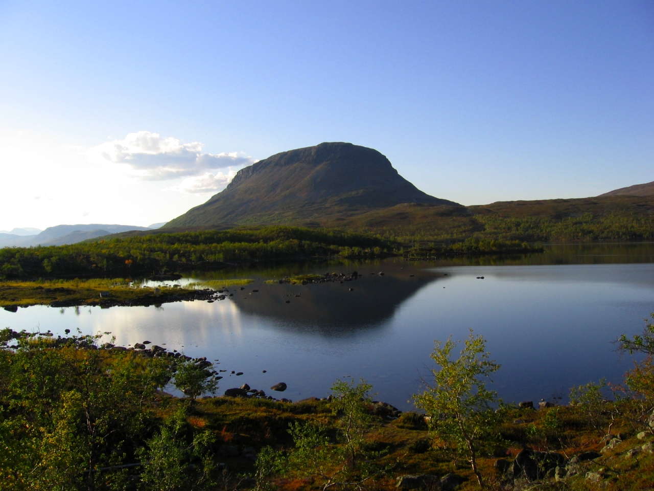 Käsivarsi Wilderness Area. Saana fell seen from the south, on the foreground lake Tsahkaljärvi.